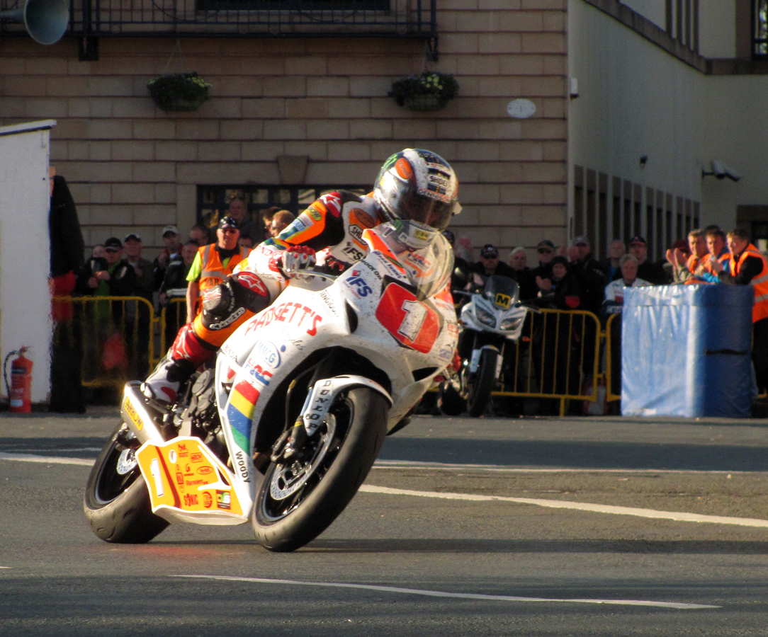 Description : Isle of Man TT Races Date : 4th June 2012 Source : Agljones at en.wikipedia Permission See below.